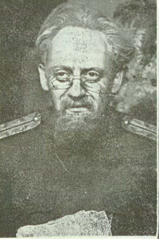 Romanian actor Gheorghe Harag